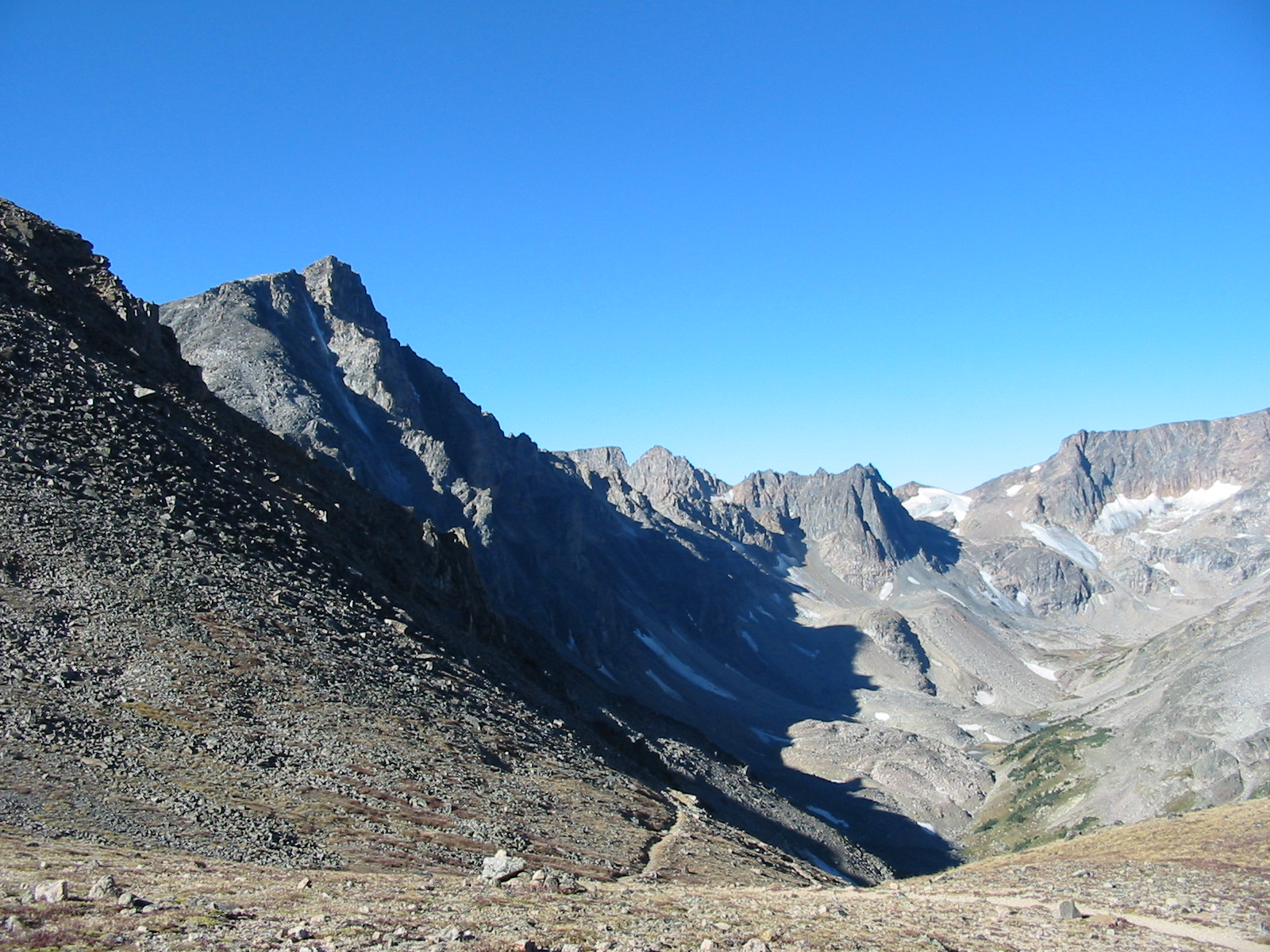 The “white tail” on Whitetail Peak White Tail